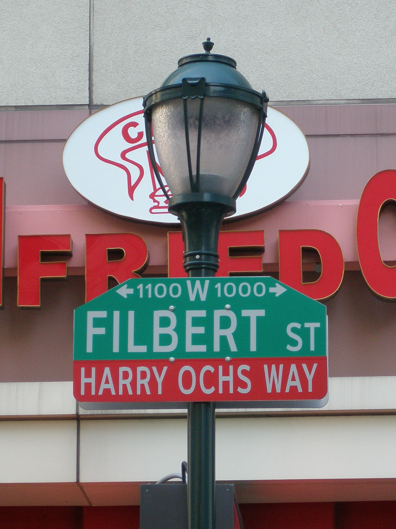 Sign for the 1100 block of Filbert St (aka Harry Ochs Way) outside the Reading Terminal Market